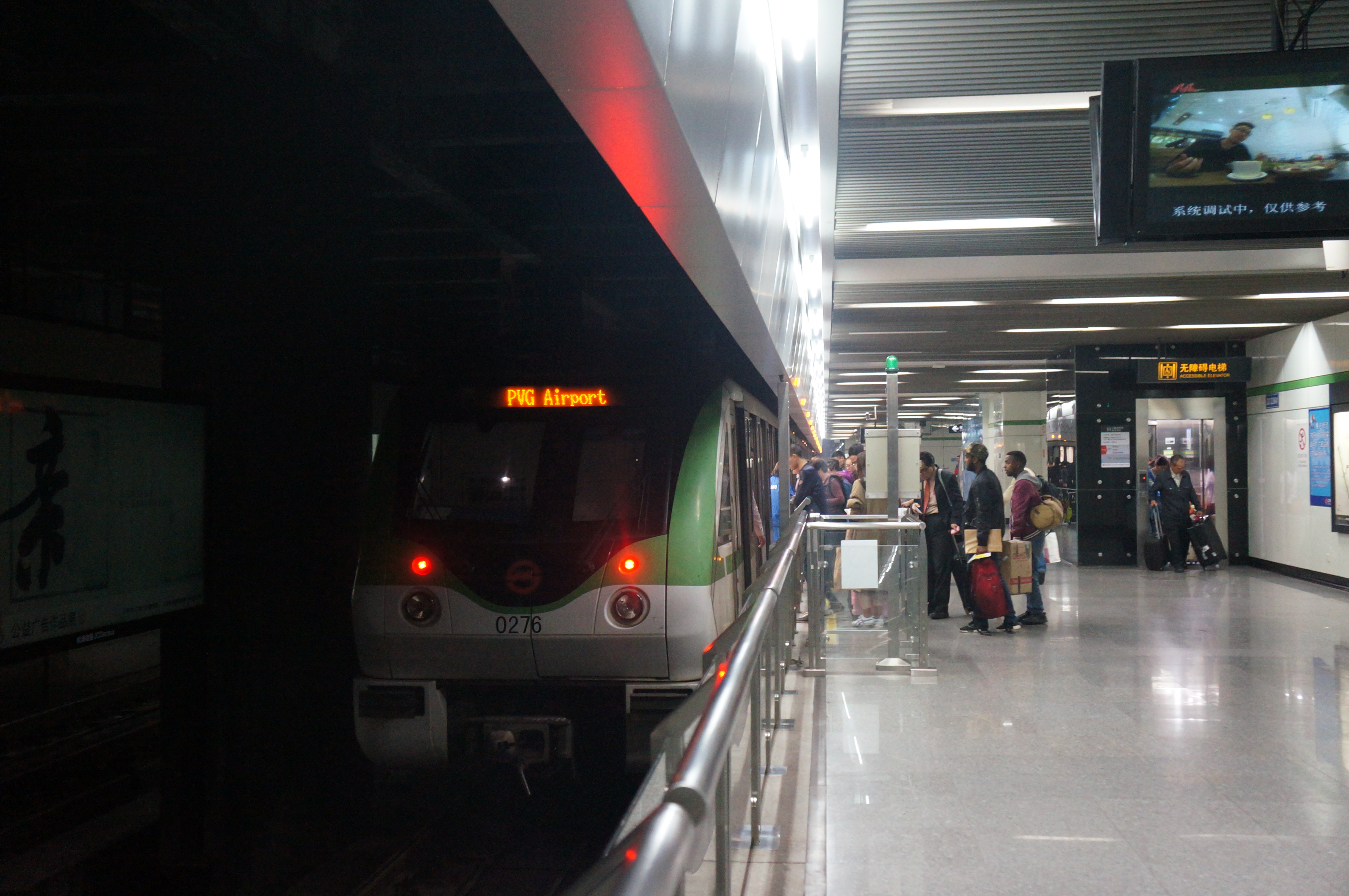 201611 AC17-0276 at Pudong Intl Airport